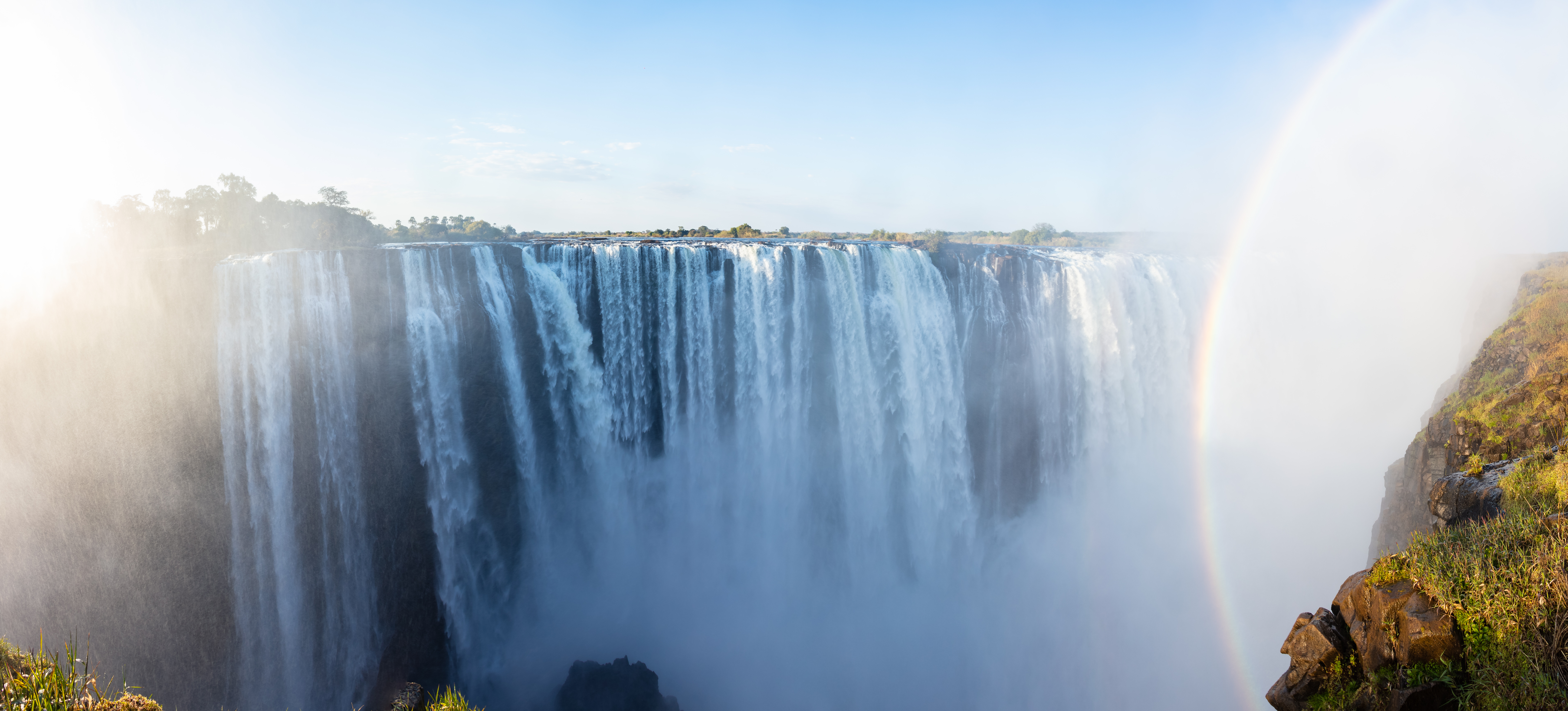 Victoria Falls, Zambia-Zimbabwe